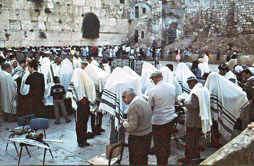 Jerusalem, Kotel - Jewish holidays : Hoshana rabah